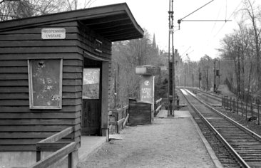 Ramstation Station in Bærum, Norway, on the Drammen Line.